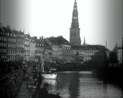 Screenshot from the Danish silent film Partier fra det gamle København (Parts of the old Copenhagen) from 1917. Slotsholmskanalen with the tower of Nikolaj Kirke.